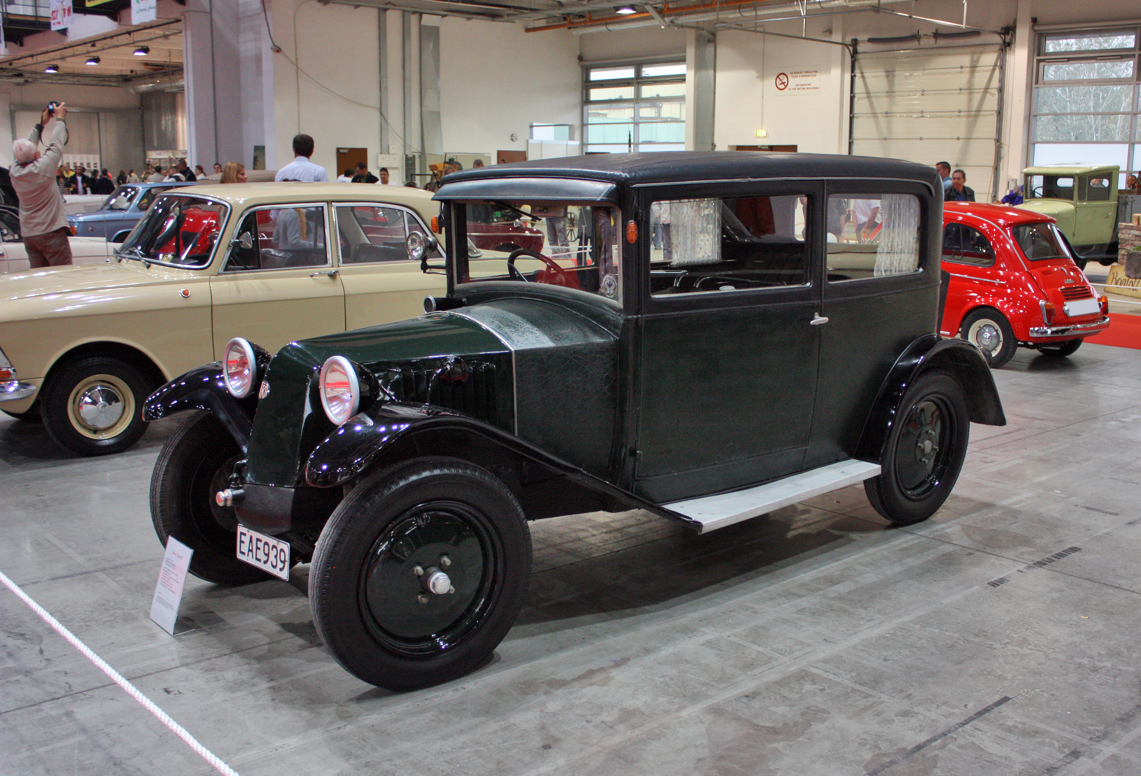 Tartra T12 during the Oldtimer Show 2008.jpg